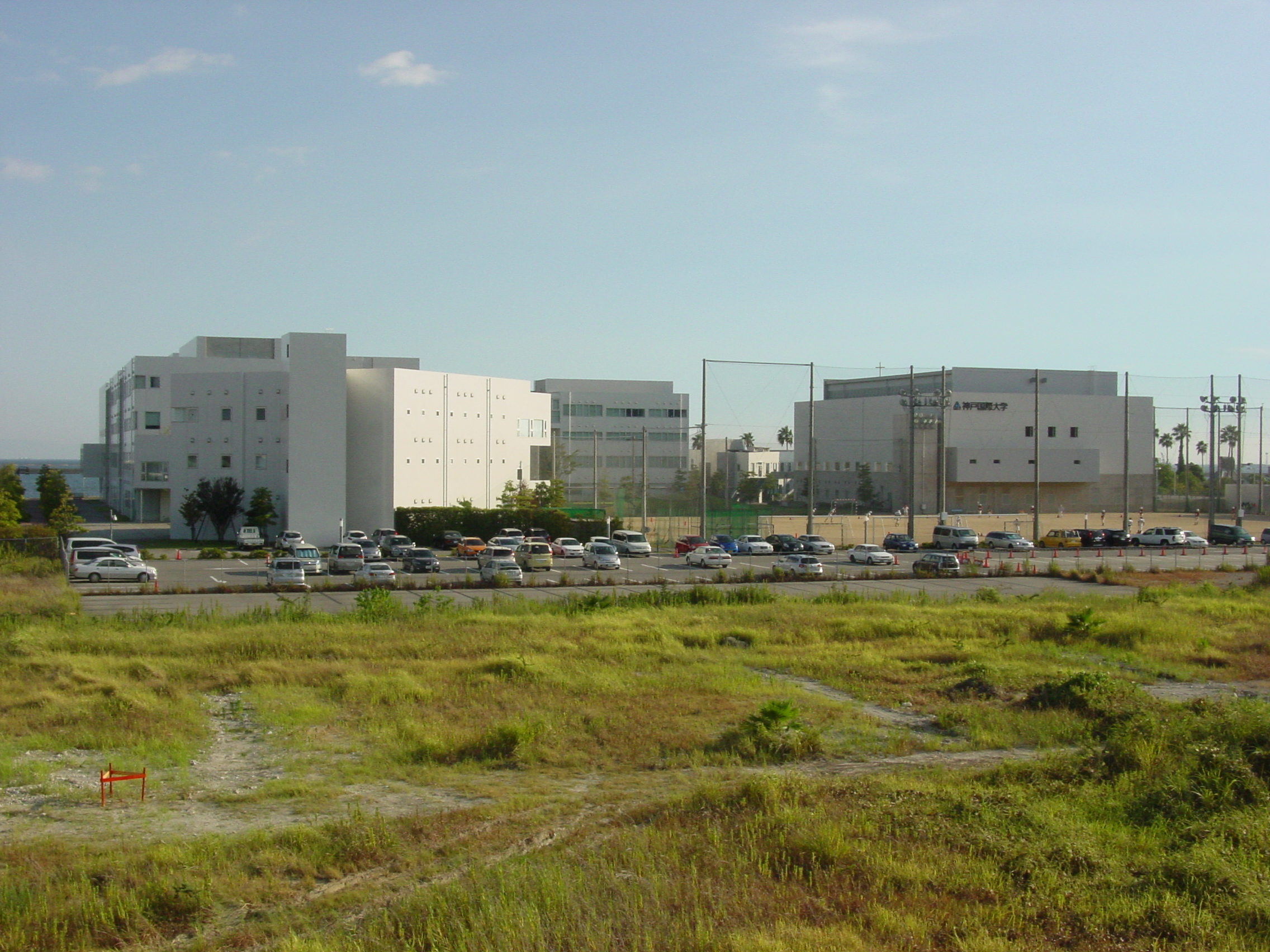 Kobe International University